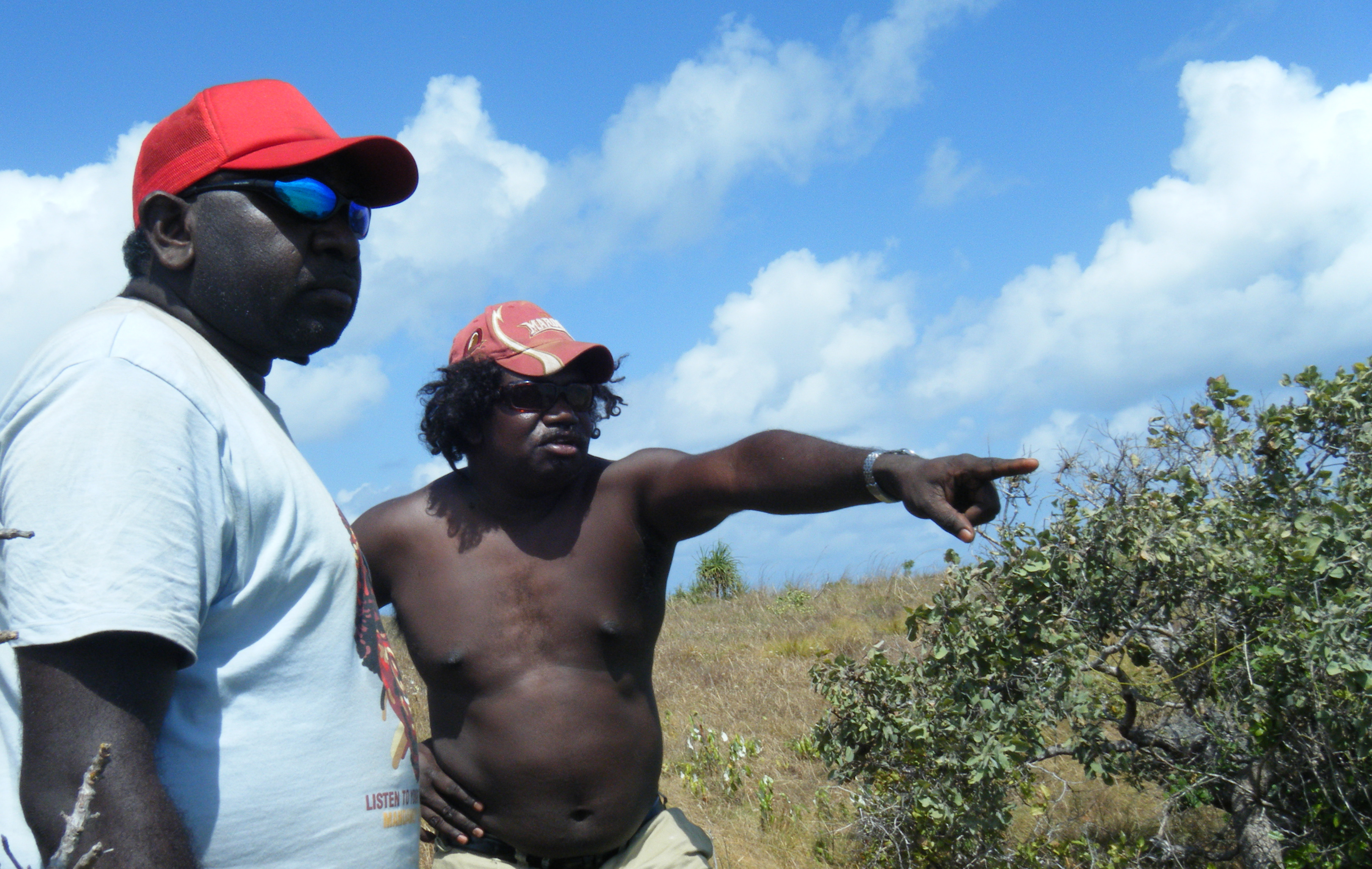 Timmy Burarrwanga pointing out a school of fish in Port Bradshaw.